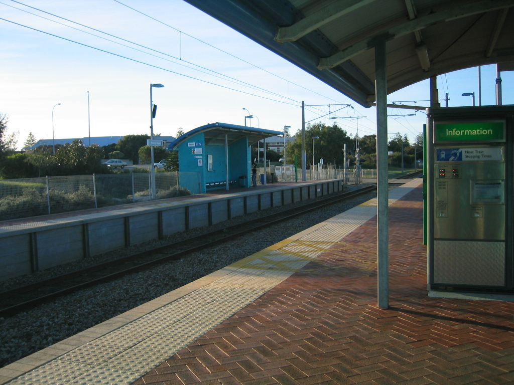 Transperth Victoria Street Train Station